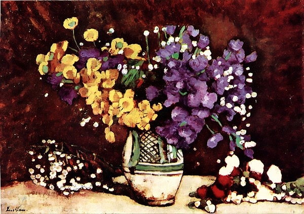 Straw flowers - oil on cardboard, not dated, Brukenthal Museum, Sibiu, Romania